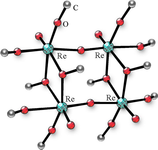 originally added by Dr. Brouillard